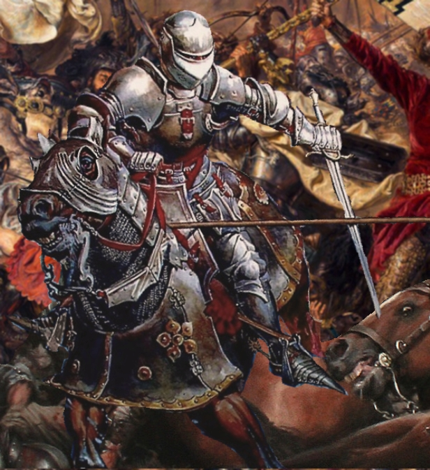 Heavy cavalry knight on horse